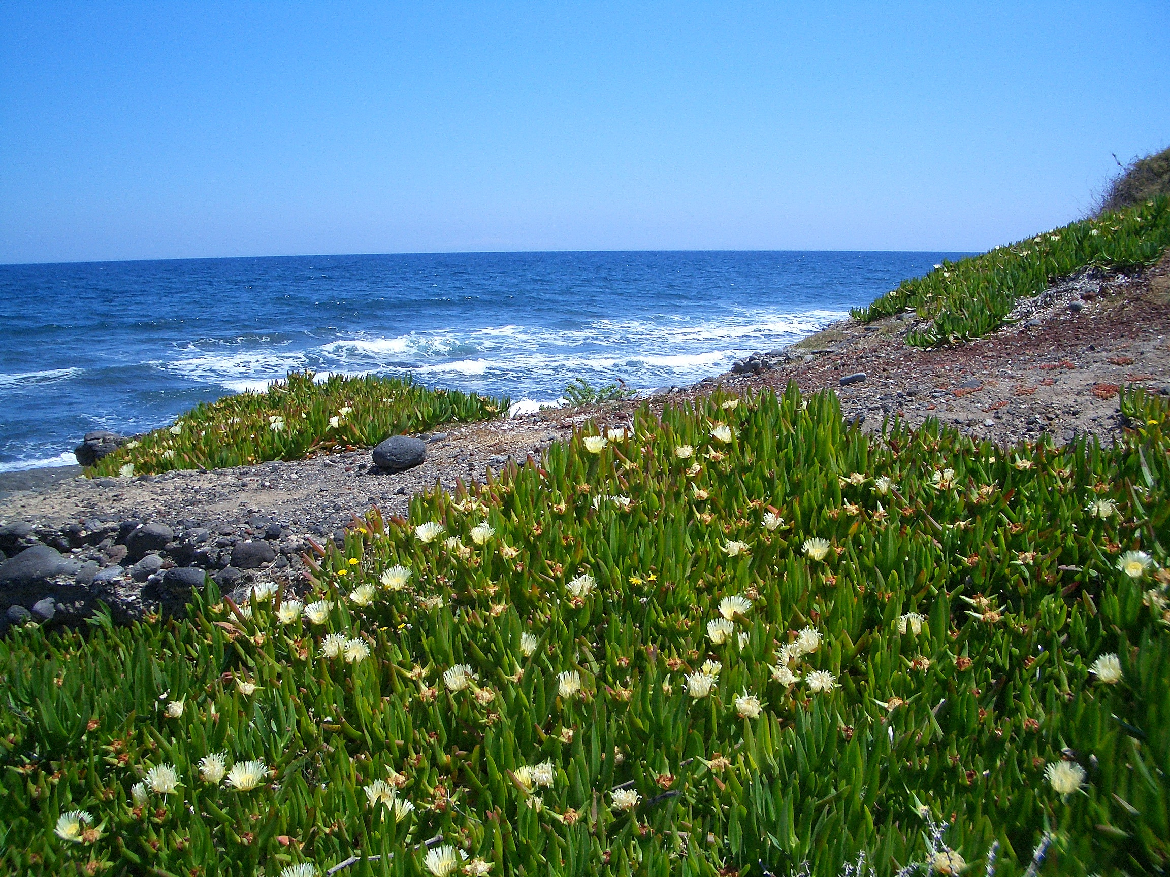 Sea Santorin